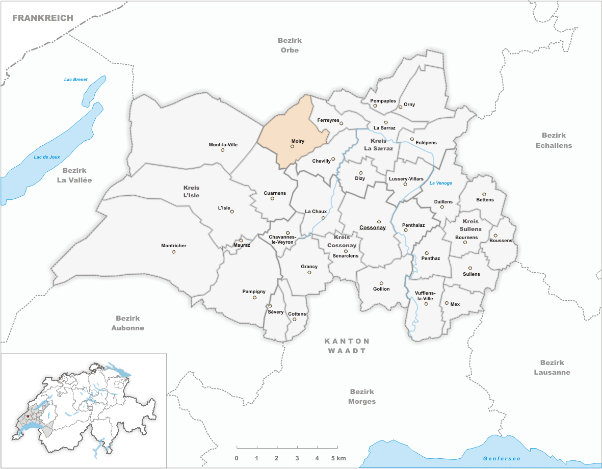 Municipality Moiry